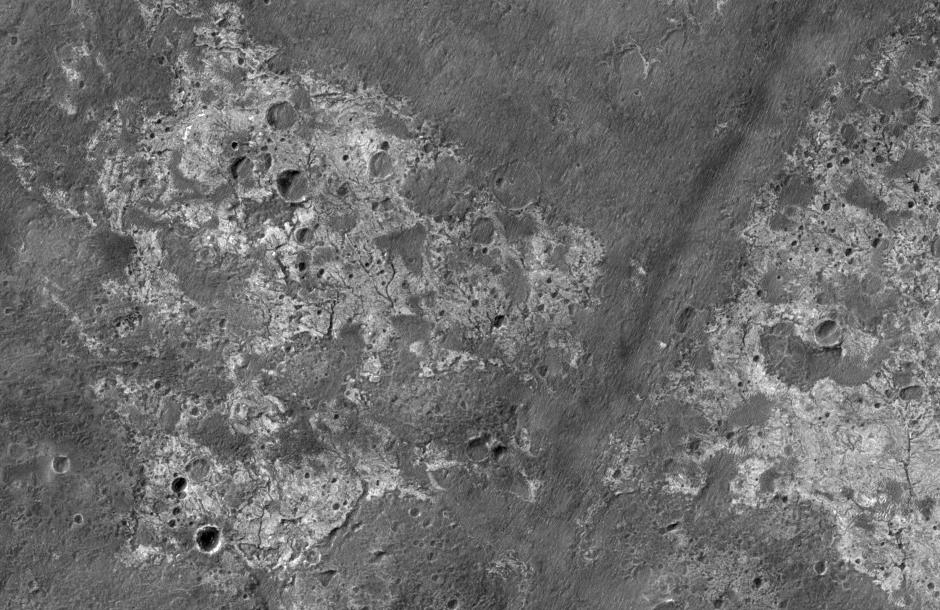 Channels near Candor Chasma, as seen by hirise. Location is 6.8 S and 282.6 E.